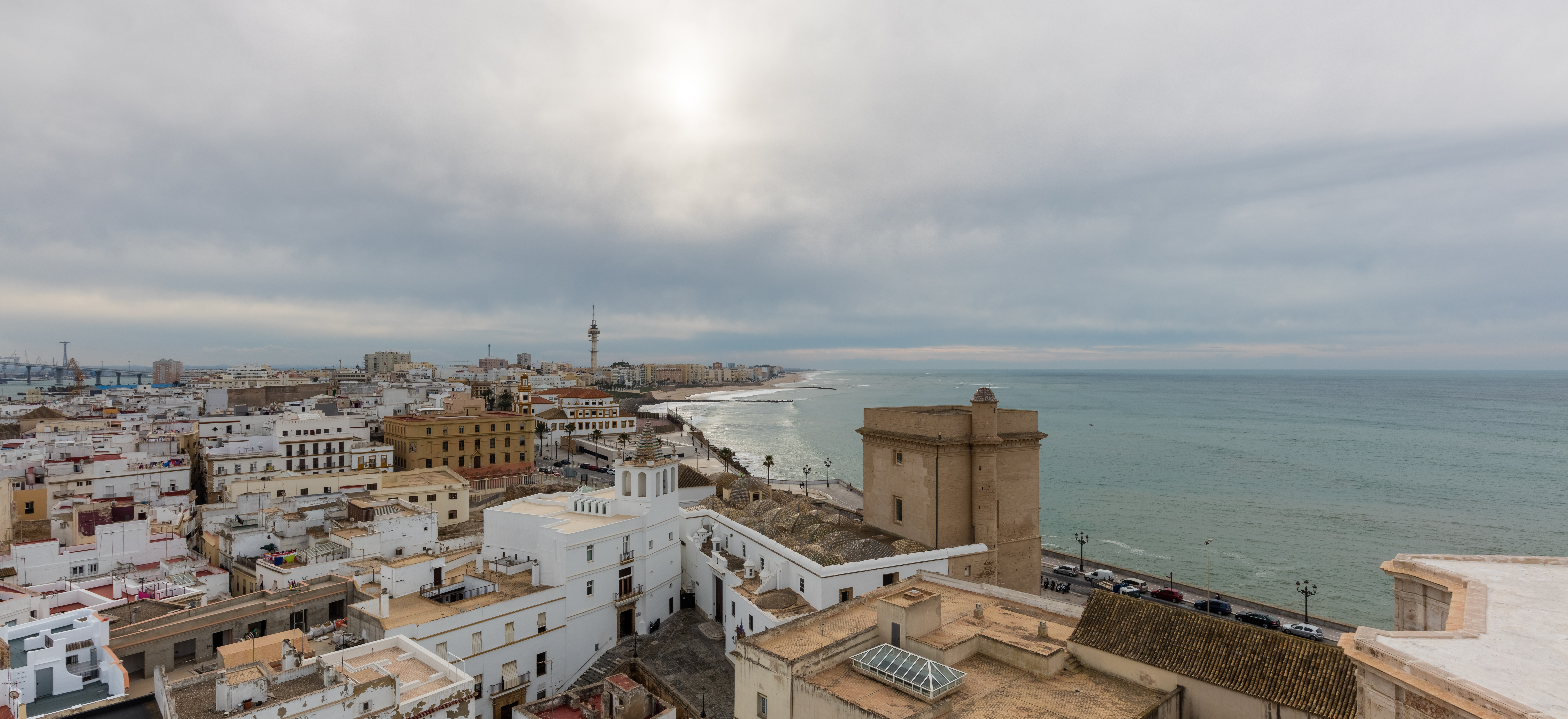 View of Cádiz, Spain